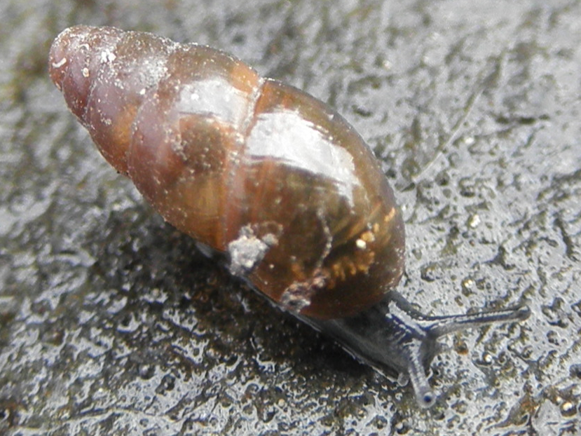 Photo of Cochlicopa lubrica.